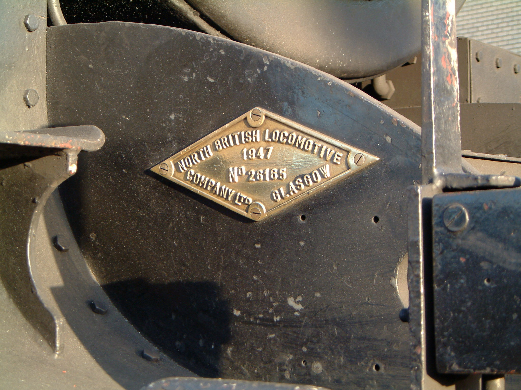 Steam locomotive LNER Thompson Class B1 No. 61264 at Anglia Trains Norwich Crown Point depot in England